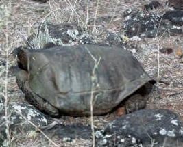 A Galapagos tortoise of the subspecies duncanensis